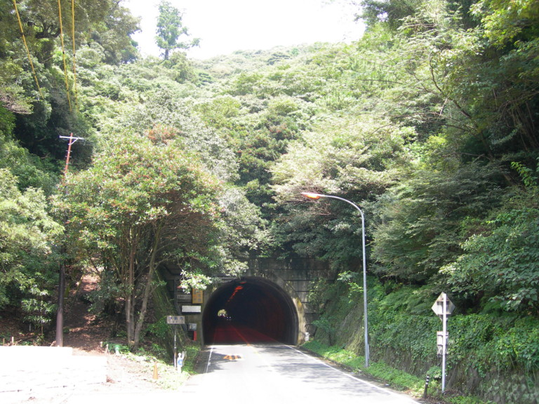 Mie prefectural route No.32, between Ise city and Shima city in Japan.